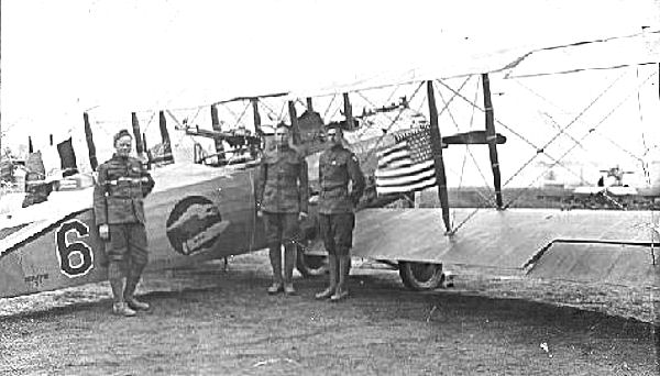 12th Aero Squadron Salmson 2 A2